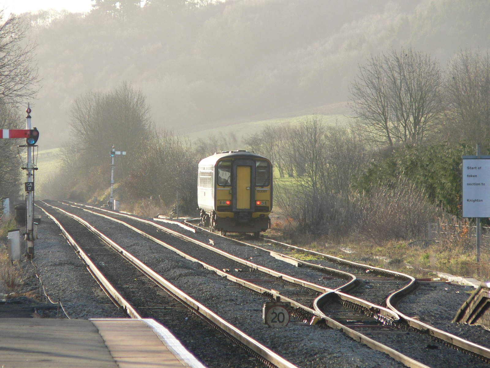 Arriva Trains Wales Class 153 DMU 153361 immediately south of Craven Arms station with a southbound service to Swansea via the Heart of Wales Line. The sign to the right reads "Start of token section to Knighton", "End of token section" is shown on the reverse - the line is obviously single track until that station.